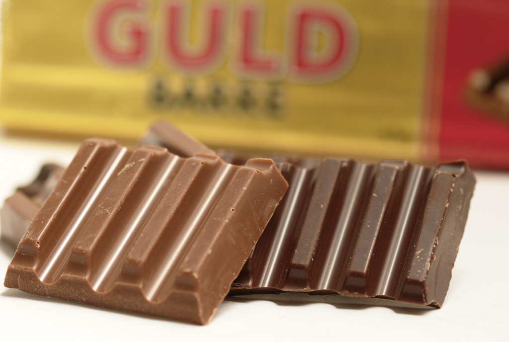 Toms Guldbarre, a chocolate bar from Danish producer Toms. Shown in individual pieces, in milk and dark version, with wrapper from the normal version in the background